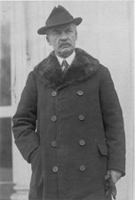 Thomas J. Walsh